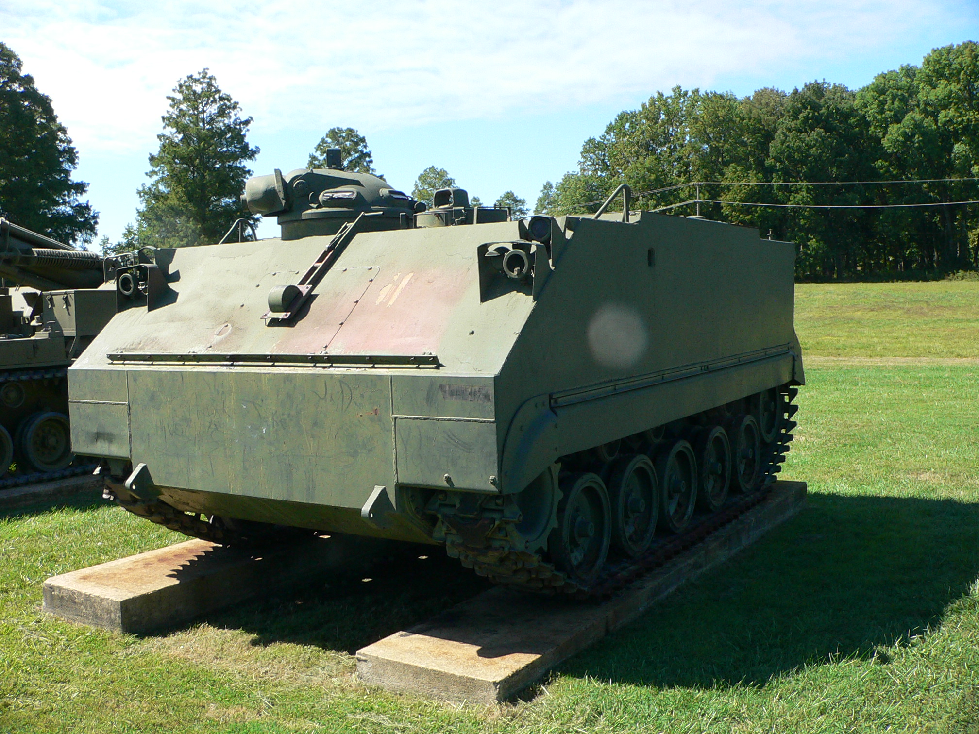 Picture taken by myself, Mark Pellegrini, at the United States Army Ordnance Museum (Aberdeen Proving Ground, MD)